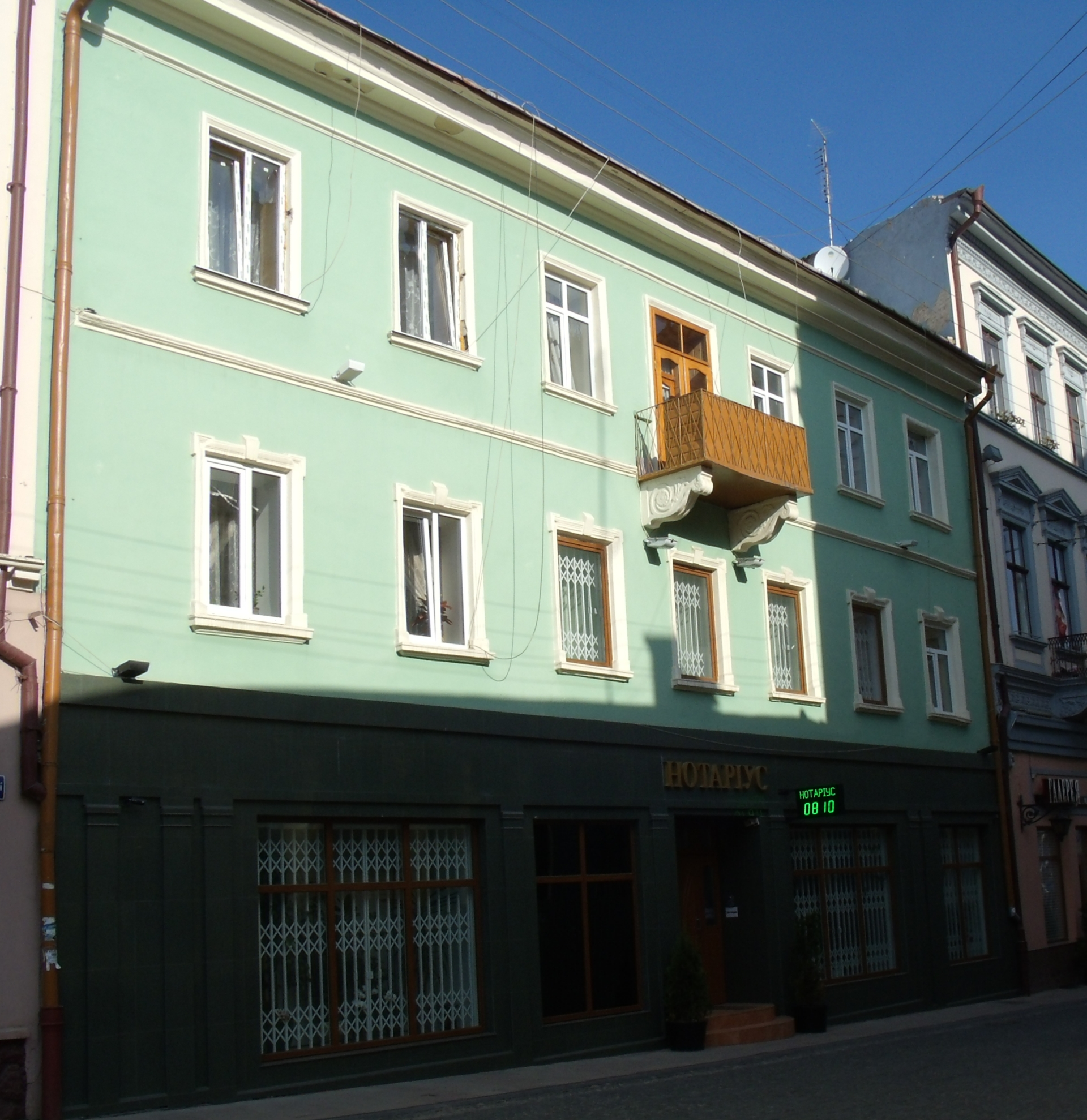 Chernivtsi, Kobylianska house 4